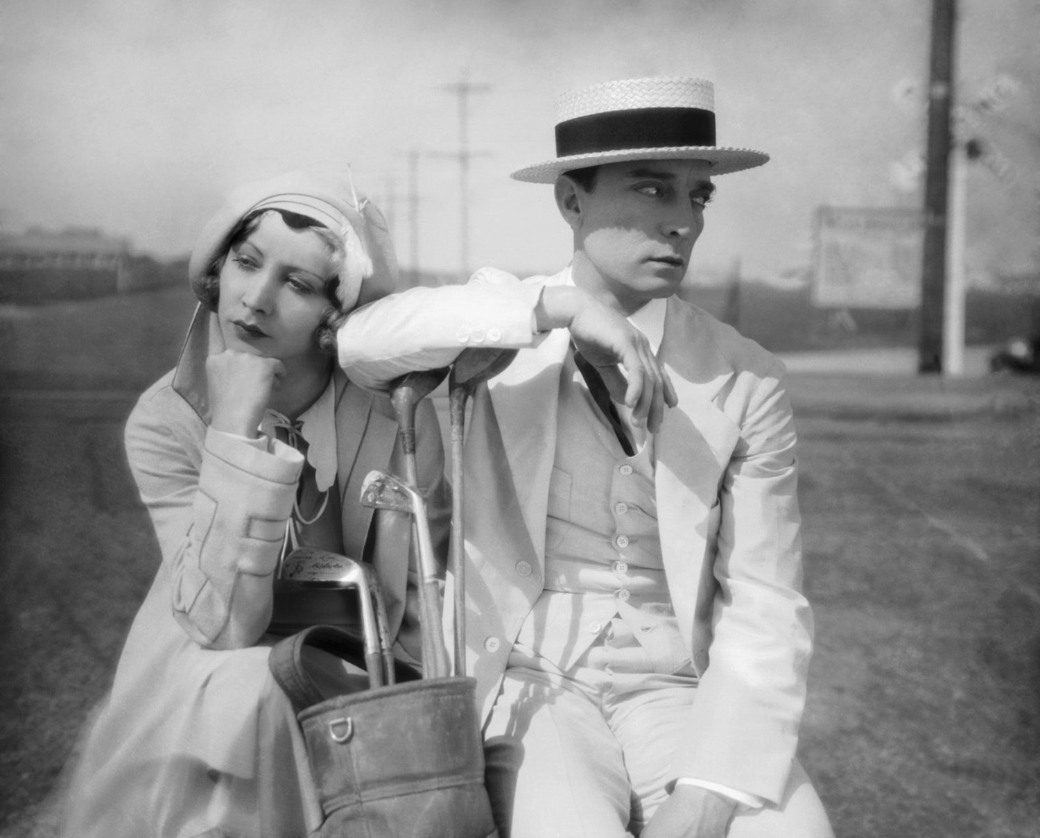 Charlotte Greenwood & Buster Keaton in Parlor Bedroom and Bath - cropped screenshot